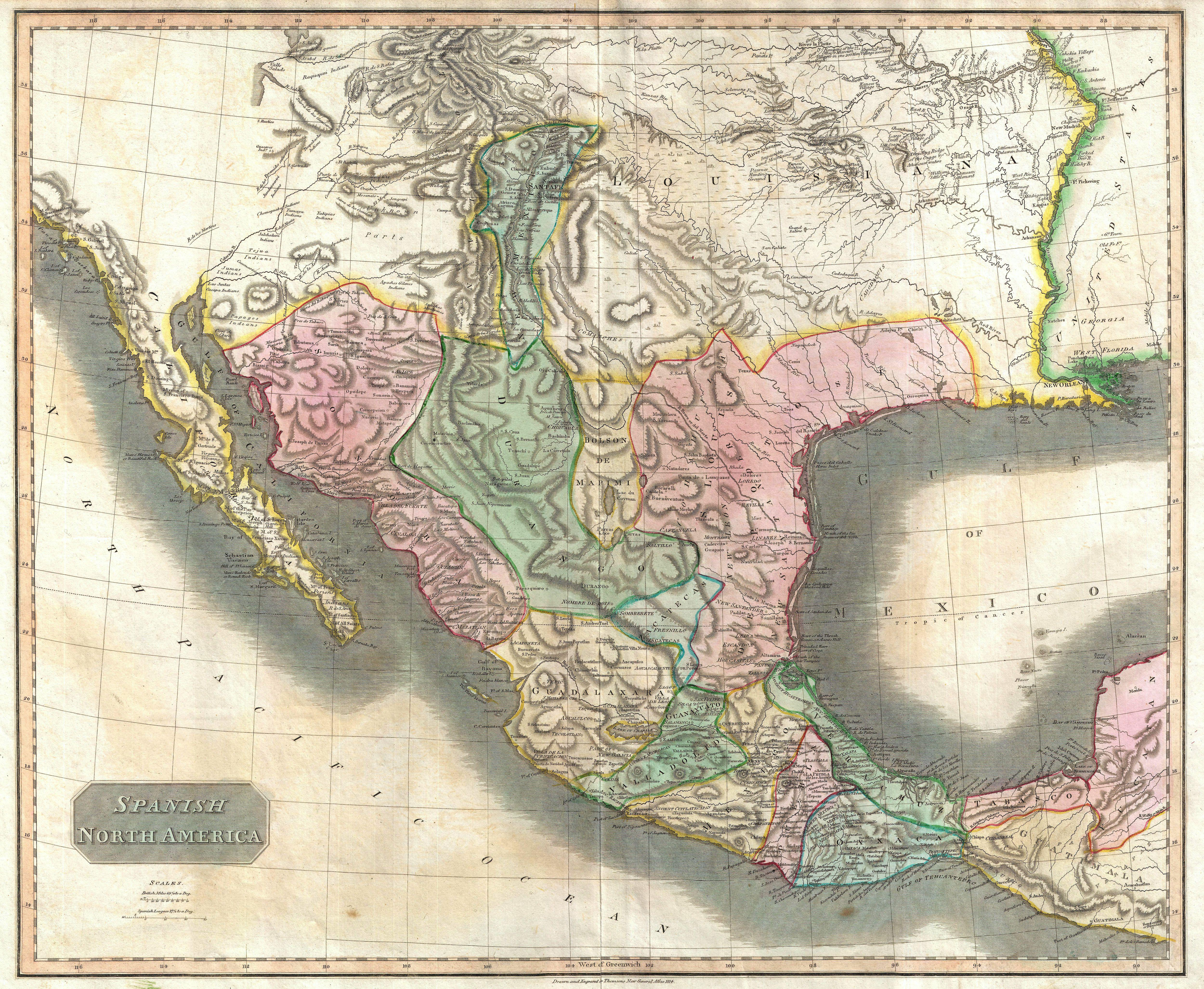 This beautiful 1814 map, along with Pinkerton’s similar map, is most likely the most important large format English atlas map of the American Southwest to be produced in the 19th century. The map depicts Mexico from the Yucatan north to what would soon become the Republic of Texas, the Louisiana Territory, and what would eventually be the U.S. States of New Mexico, Arizona, Texas, California, Nevada, Utah, Louisiana, Oklahoma and Colorado. This map is based largely on the maps of Alexander von Humboldt and Zebulon Pike. The general treatment of the Rocky Mountains is drawn directly from Humboldt important map of 1811, issued just 3 years prior. The 1806 – 1807 explorations of Zebulon Pike in modern day Colorado are also in evidence as is Pike’s Peak, here noted as the “Highest Peak”. The name Texas appears on this map only as the name of a settlement on the Colorado River, which is here mapped twice. The Great Salt Lakes is mapped according to the limited knowledge preserved from the Escalante-Onate expedition of 1776. Here both the Great Salt Lake and Utah Lake are mapped, both with indistinct borders. The Louisiana region is especially well notated with numerous annotations regarding the Indian tribes inhabiting the region and a number of advances over Humboldt – such as the correct mapping of the Arkansas River. Dated: Drawn and Engraved for Thomsons New General Atlas 1814. This is the first edition of Thomson's map from the 1814 edition of the Atlas. Subsequent editions were published in 1817 and 1826.